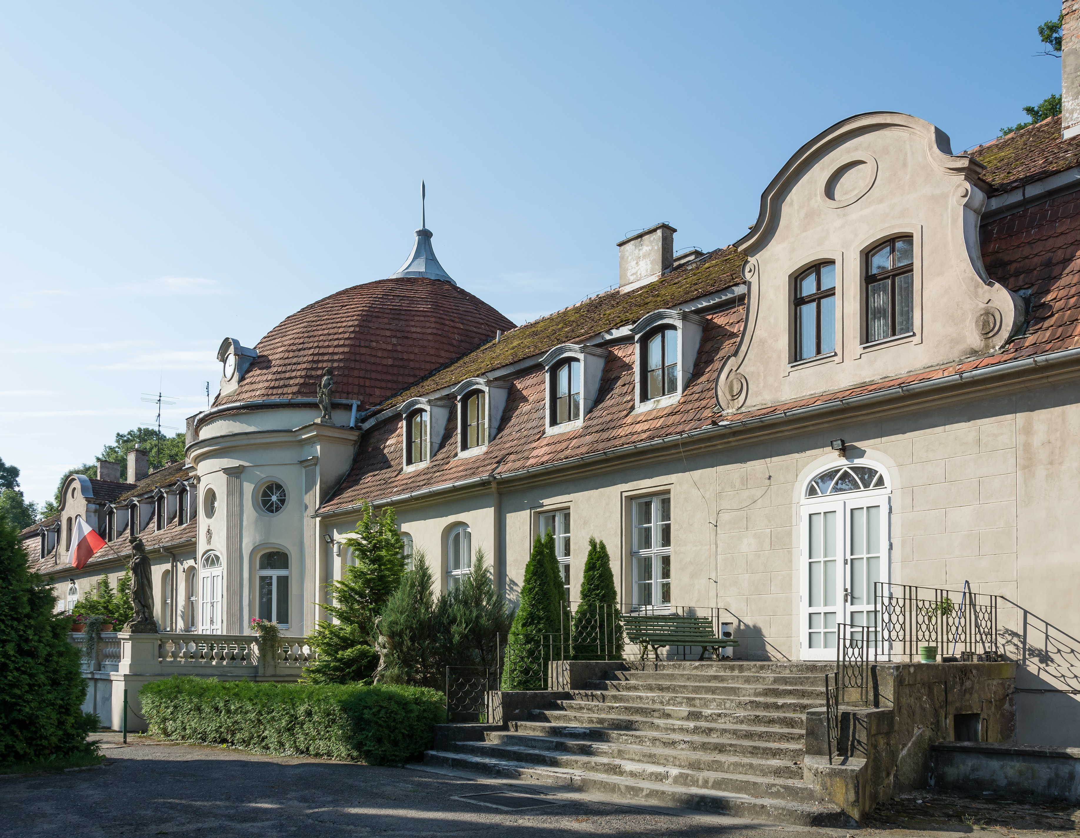 Glisno Palace Wikidata has entry Q11814945 with data related to this item.